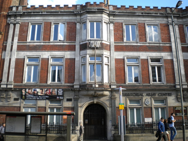 Territorial Army Centre, Lavender Hill SW11